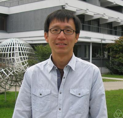 Description at MFO: On the Photo: * Gan, Wee-Teck * Occasion:The Analytic Theory of Automorphic Forms * Location: Oberwolfach * Author: Schmid, Renate (photos provided by Schmid, Renate) * Source: MFO * Year: 2011 * Copyright: MFO * Photo ID: 14628